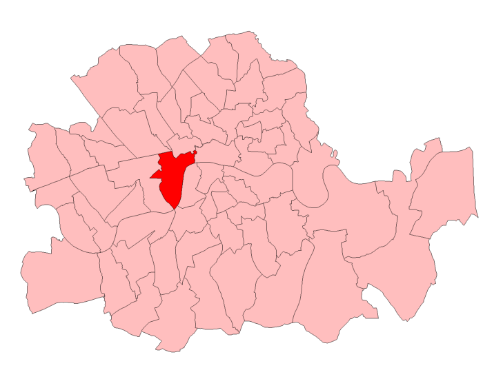 A map of Westminster Abbey constituency within the London County Council area, as it existed from 1918 to 1949.